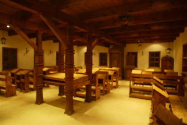 synagogue of the Baal Shem Tov rebuilt by the Agudath Ohalei Zadikim